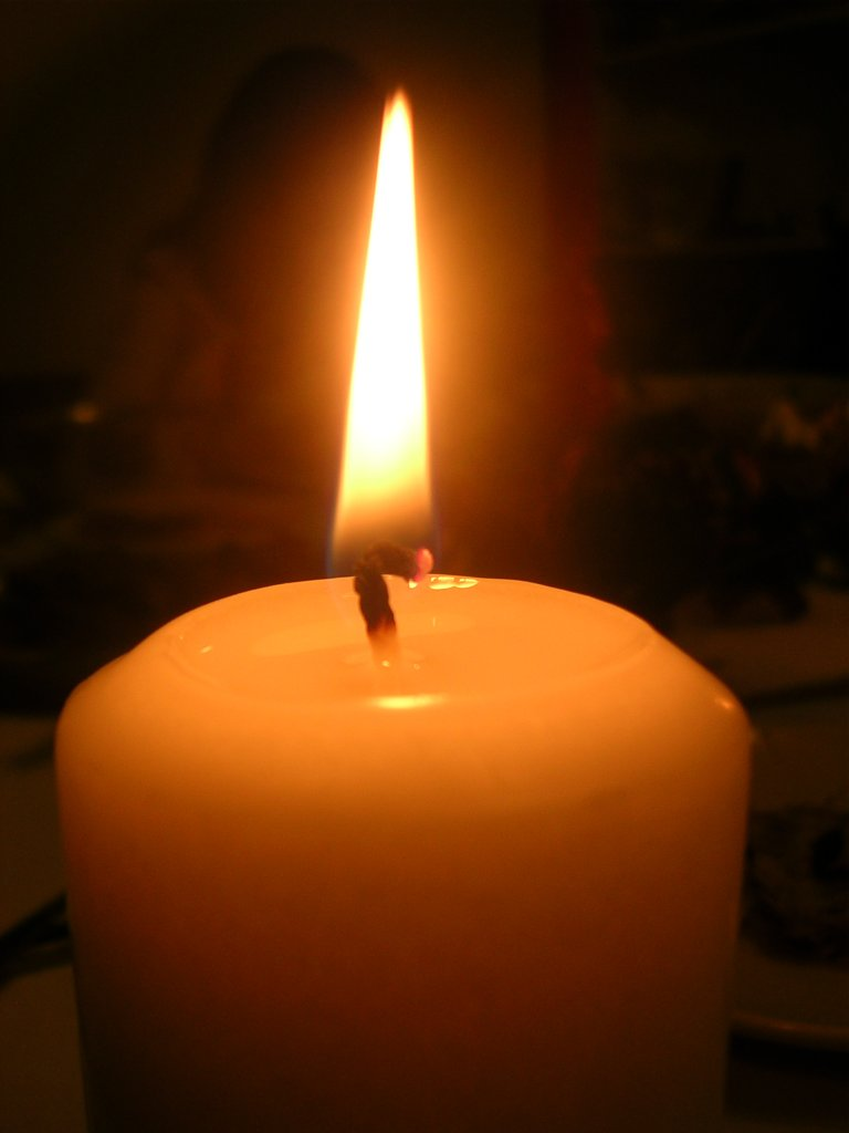 Candle standing at Christmas Eve table.